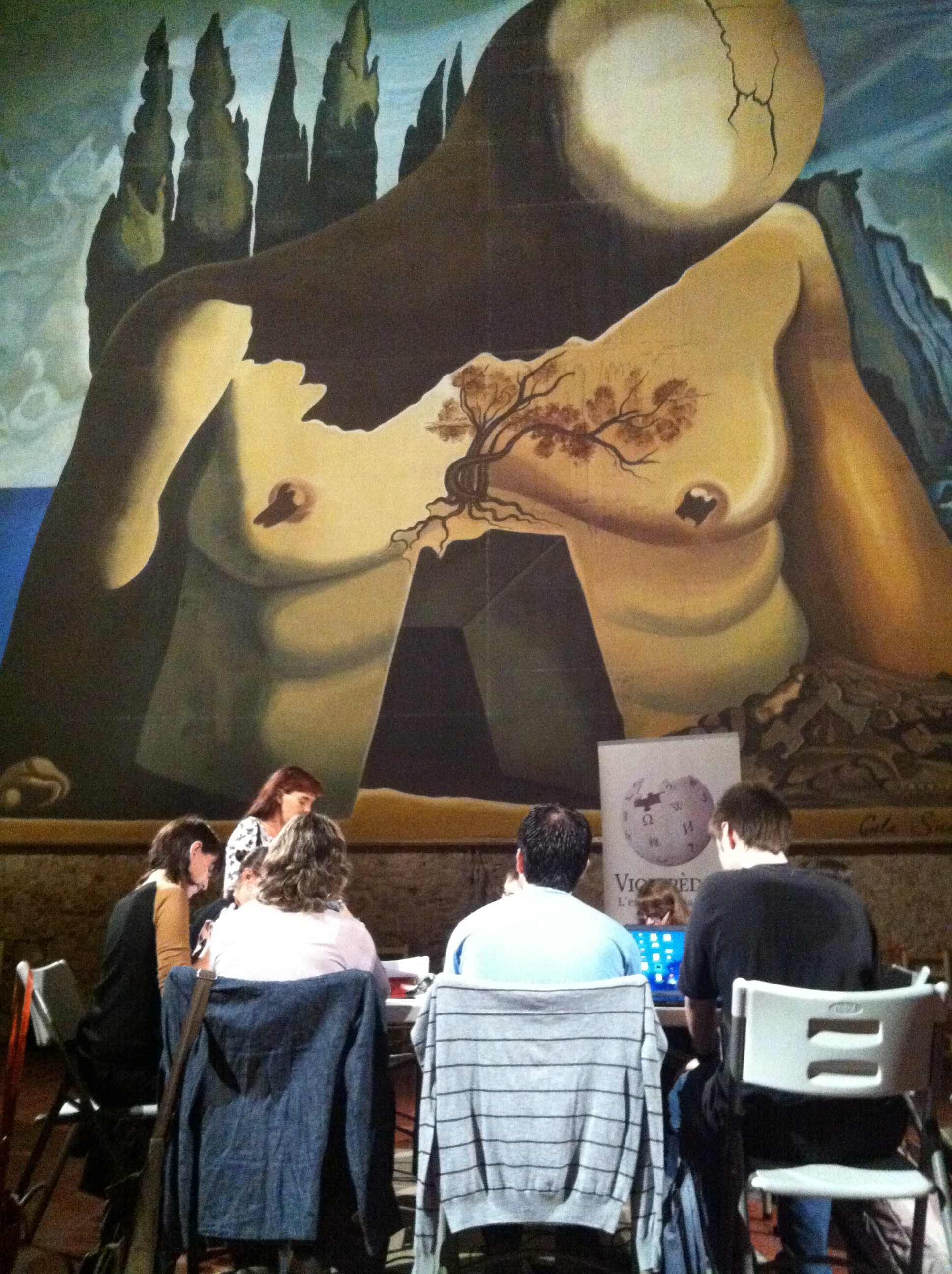 Edit-a-thon at the Dalí Foundation in Figueres in september 2012, organized by Amical and the museum